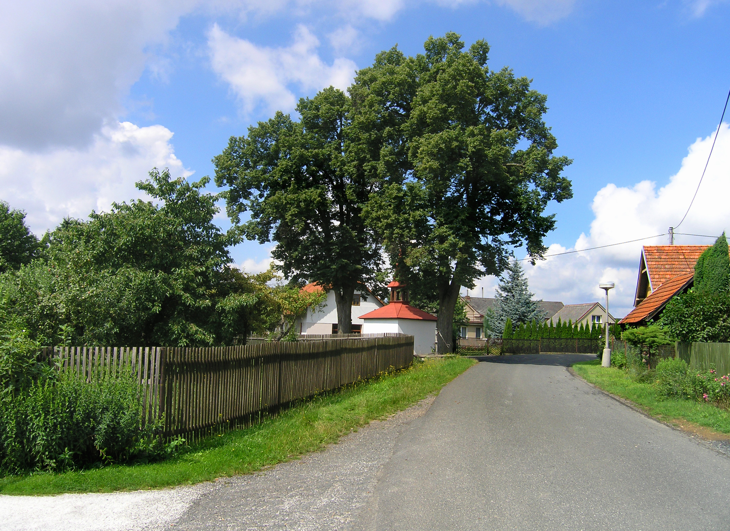 Šlechtín, part of Bohdaneč, Czech Republic